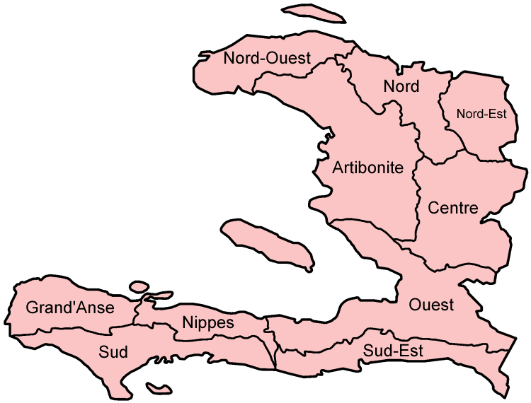 Map of the departments of Haiti named in French (local language). Made by User:Golbez.